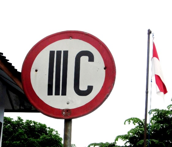 Road sign informing street category. Street class IIIc in Indonesia allows vehicles with width not more than 2100 mm, length not more than 9000 mm, and axis weight max. to 8 metric ton to enter. Source (Indonesian)